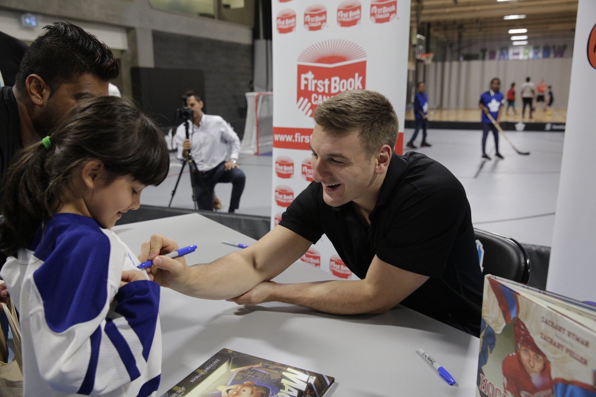 Zach Hyman at a First Book Canada book signing for The Magician's Secret